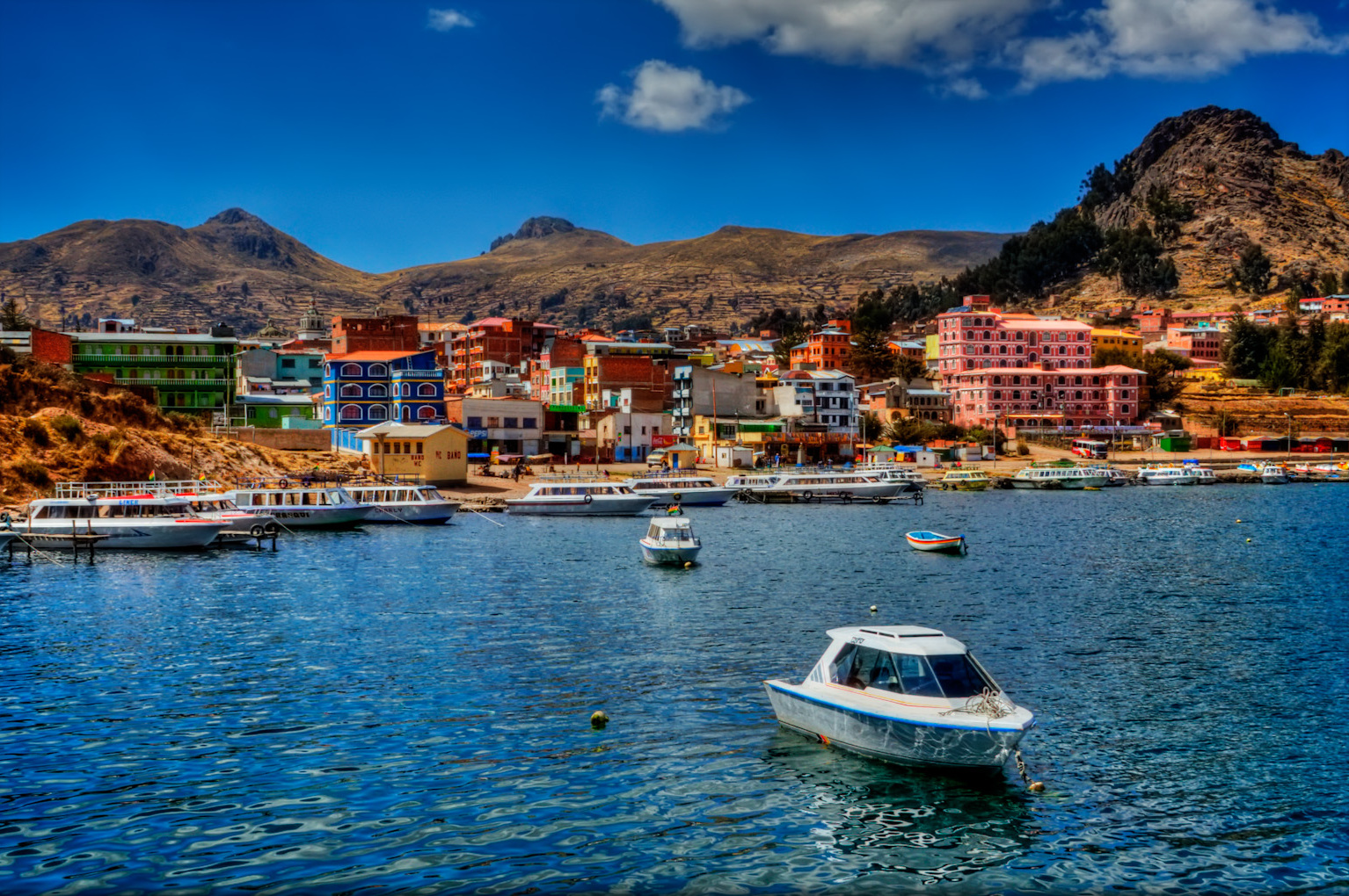 Our Bolivian vacation adventure of 2007 started in the little town of Copacabana in the shore of Lake Titicaca. We arrived by boat from the Peruvian side after spending a night in the lake with a family. More on that later. Lake Titicacata is 3,812 meters or 12,500 ft) above sea level. By the time we got here we had already gotten used to the high altitutde. This high altitude makes the sky and water an intense blue. Very pretty and quite pleasant in August. Copacabana is a nice little town with a very nice old church and market. There is the belief that the name is derived from the Aymara kota kahuana, meaning "view of the lake." ISO 100, 28mm, f13, 1/160sec, shot handheld from the moving boat. Nicer large.